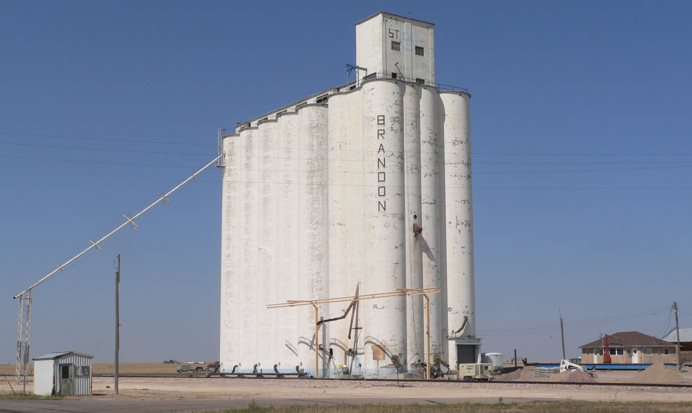 Grain elevator on north side of Nebraska Highway 23 in Brandon, Nebraska.